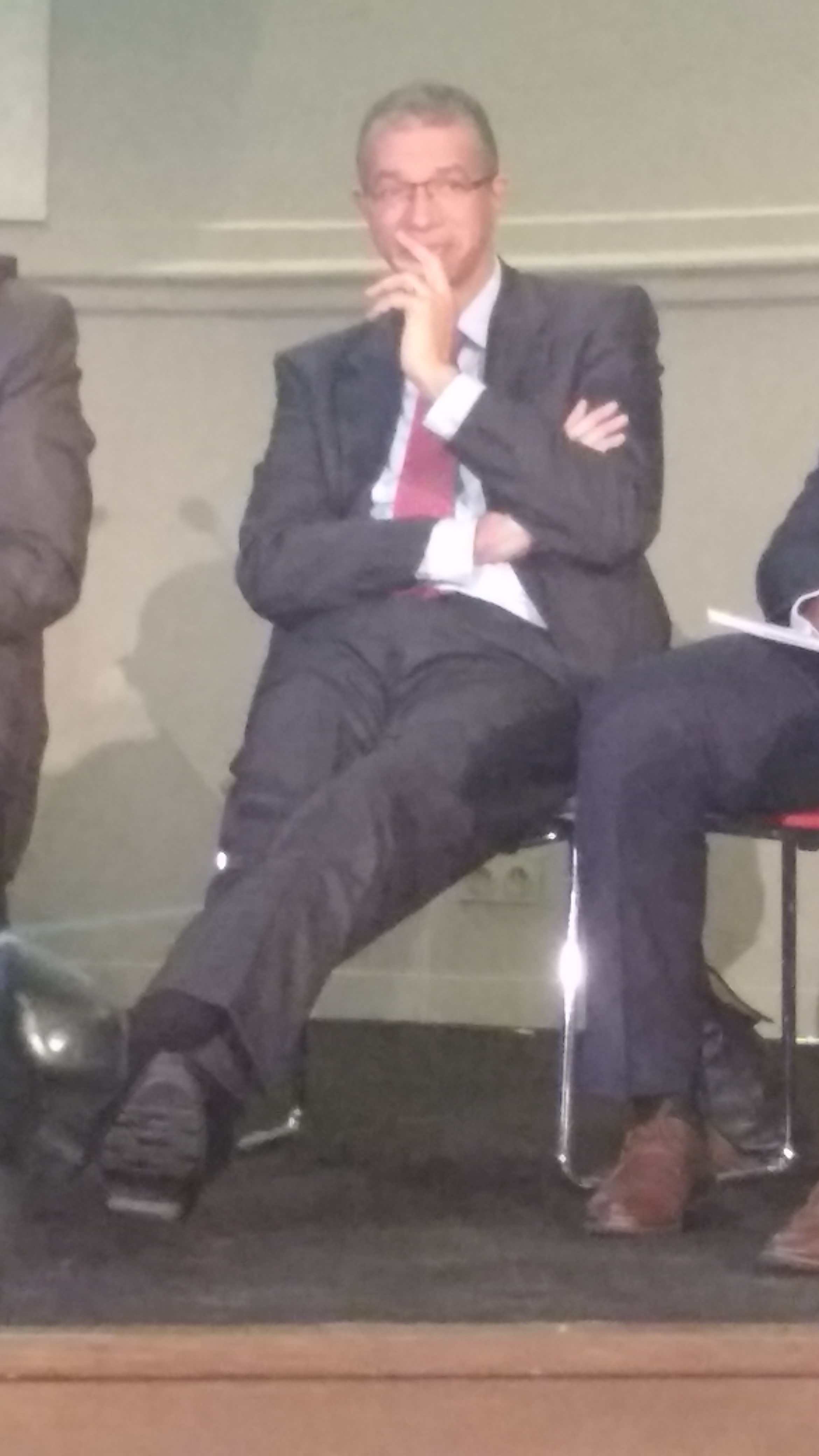 Lionel Zinsou at Lab 2016 in Paris, Hôtel de l'Industrie